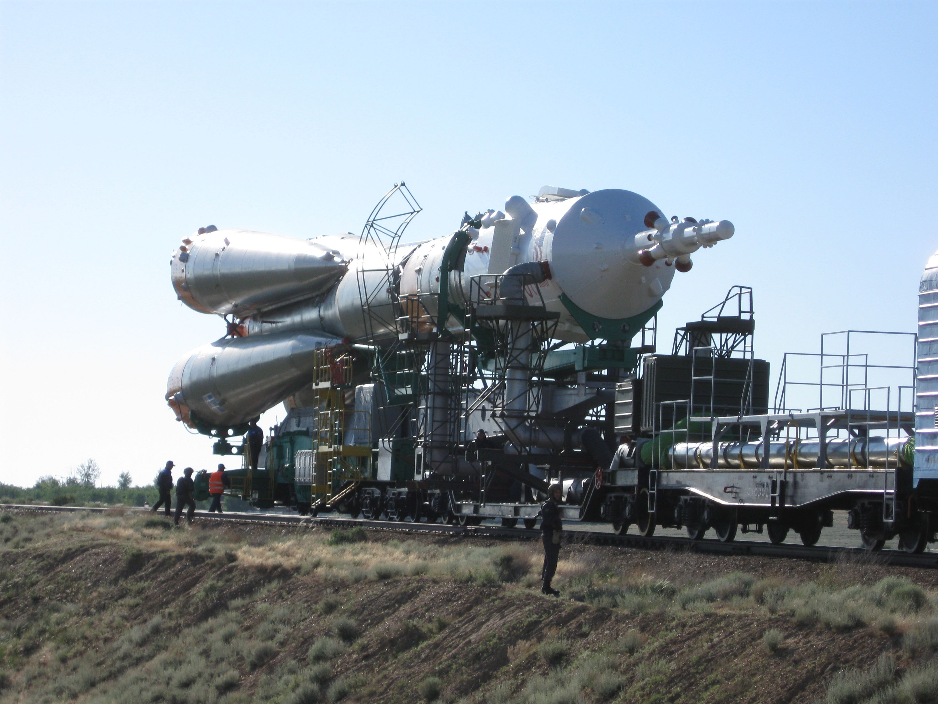 One of a series of still photos documenting the 25 May rollout of the Soyuz TMA 15 spacecraft to the pad at the Baikonur Cosmodrome in Kazakhstan. The Expedition 20 crew is winding down pre-launch activities in preparation for the 27 May launch.